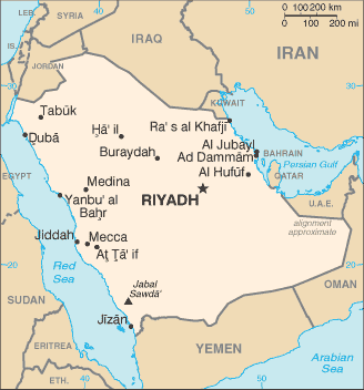 Map of Saudi Arabia, showing major cities.